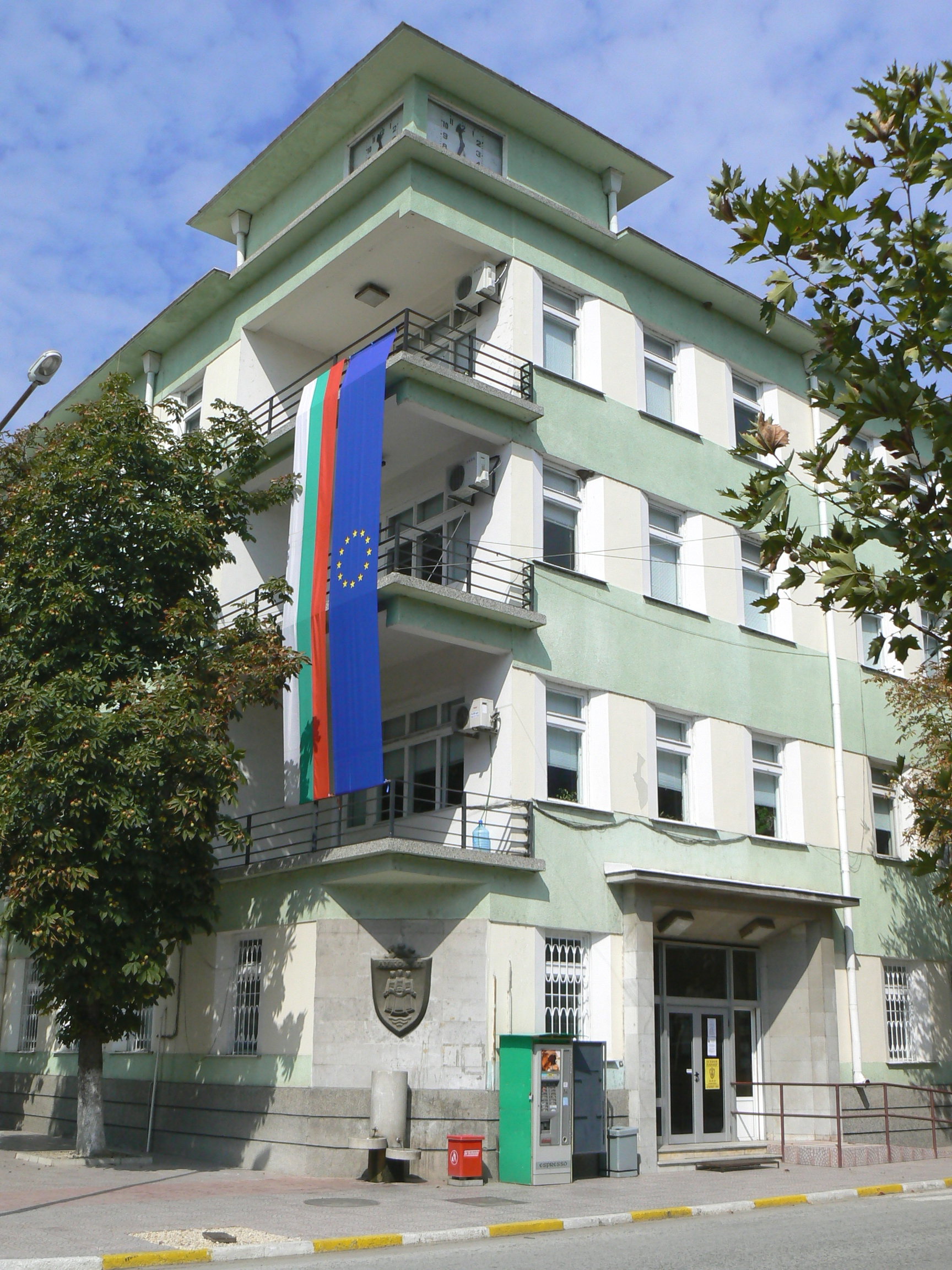 The building of Lukovit Municipality, Bulgaria